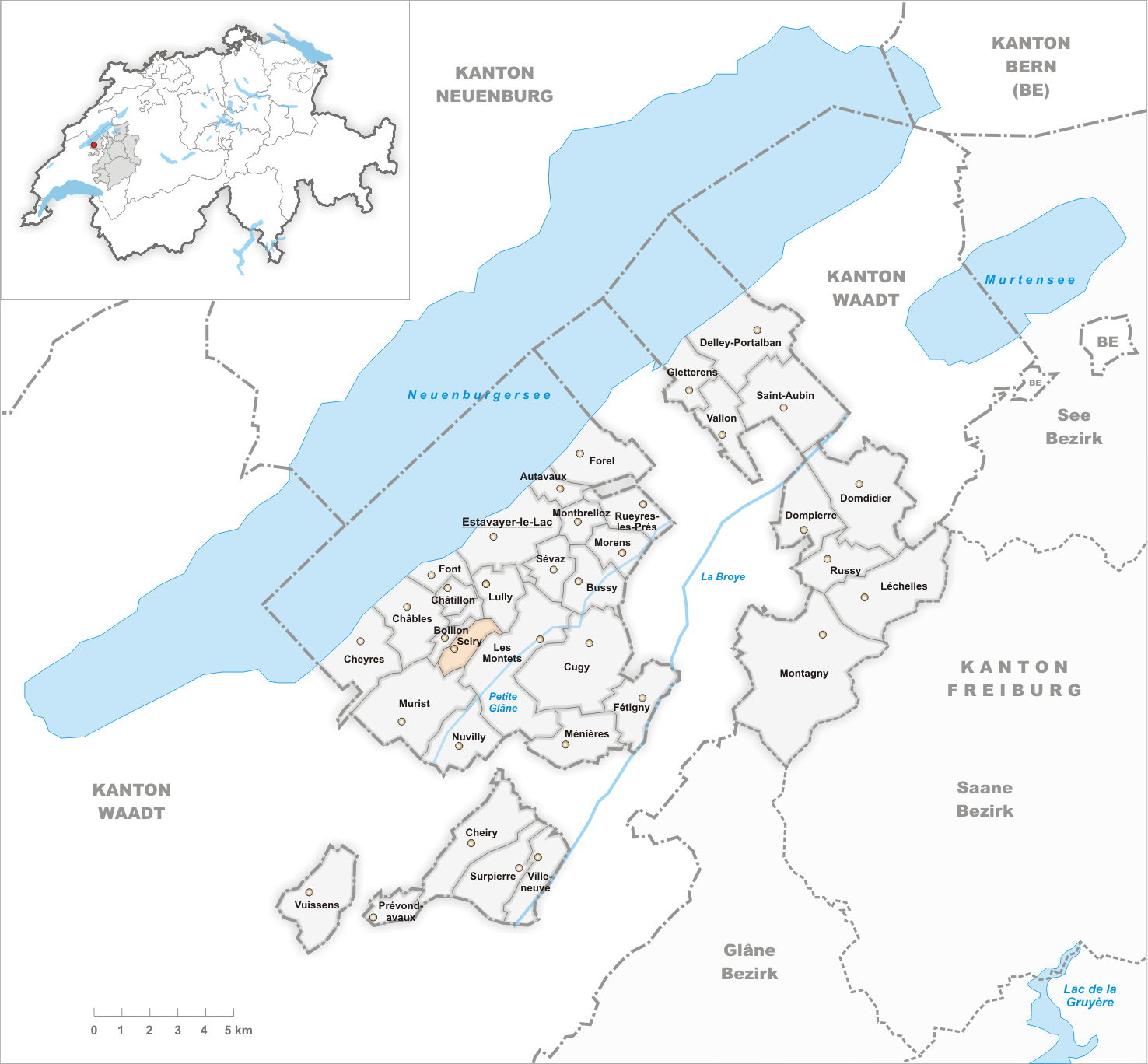 Municipality Seiry Artist: Tschubby